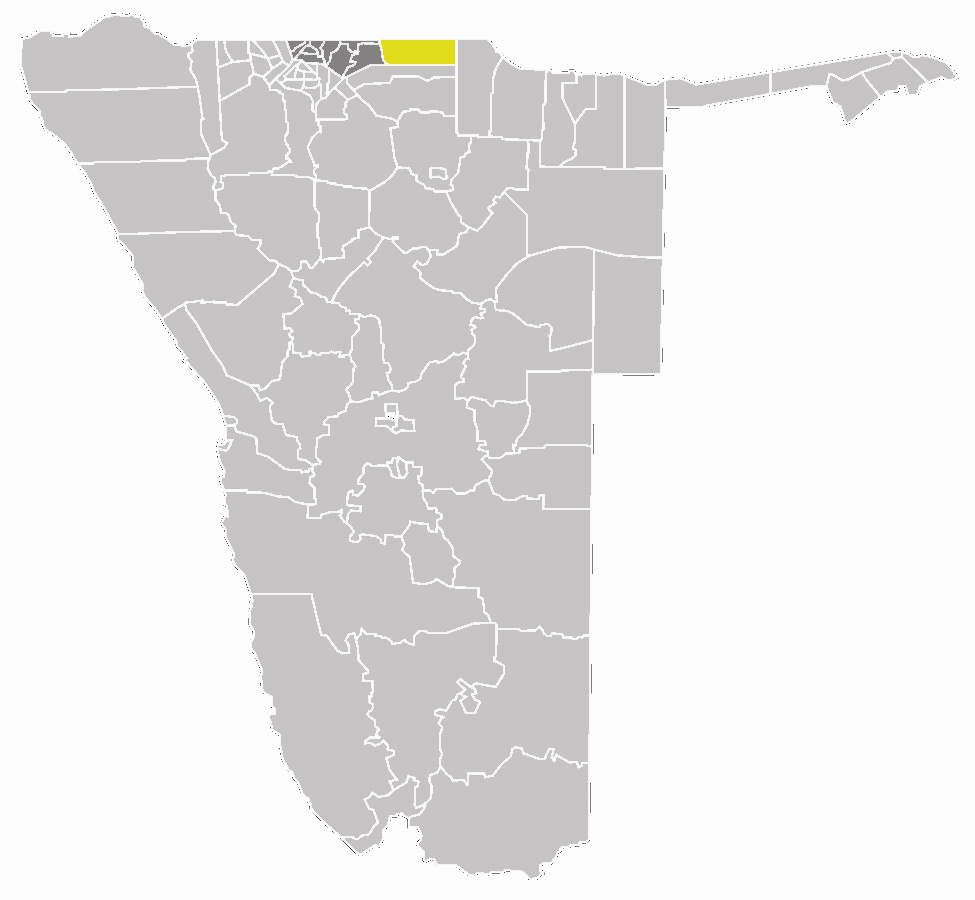 map of the Okongo constituency within the Ohangwena region, Namibia